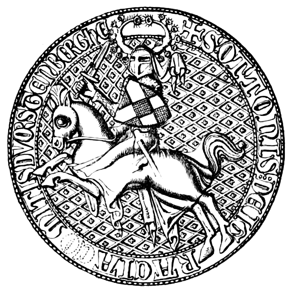 Table 53 of collected seals from the medieval Duchy of Mecklenburg.